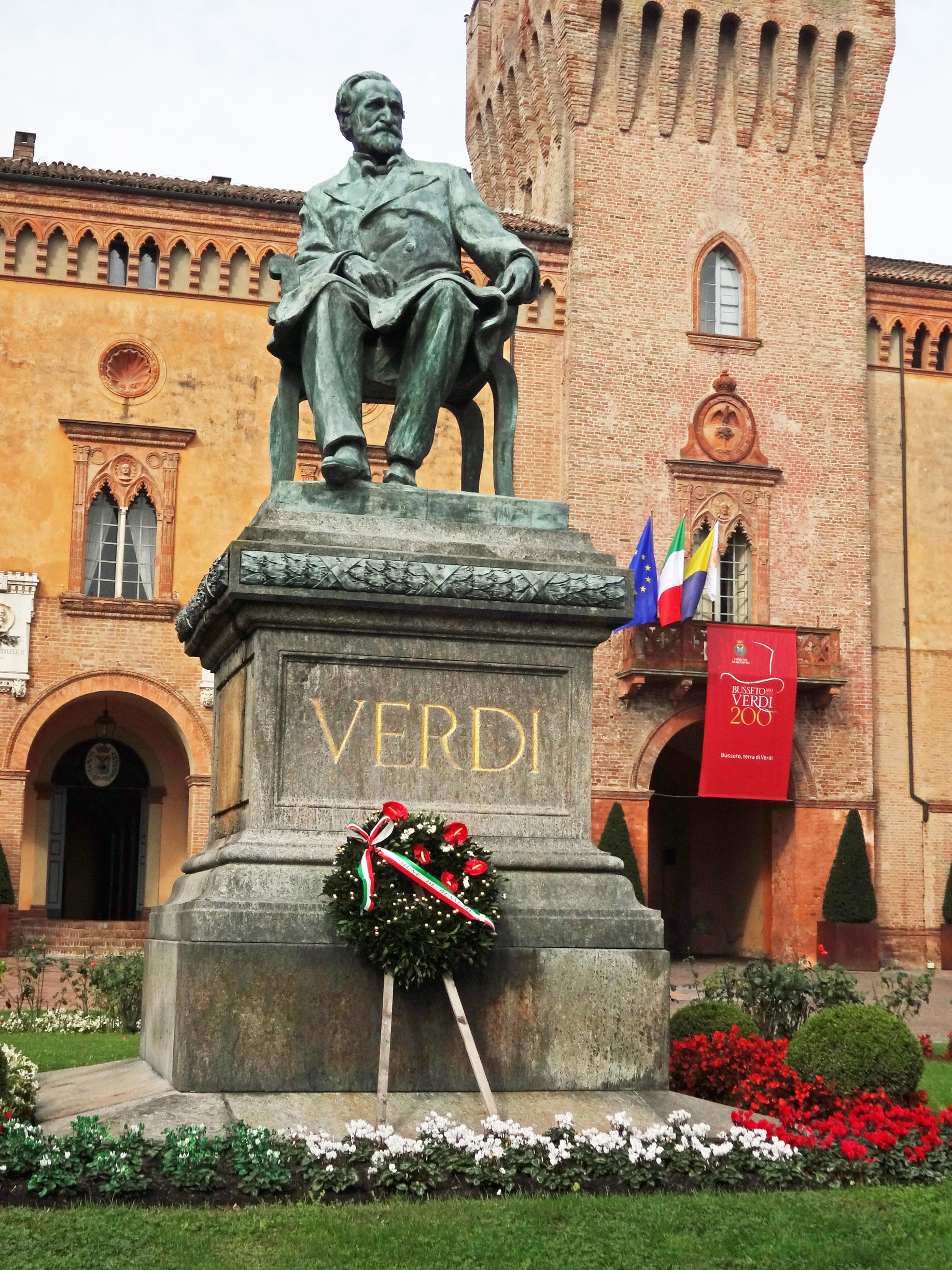 Taken on 10 October 2013, the bicentenary of Giuseppe Verdi's birth in nearby Le Roncole.